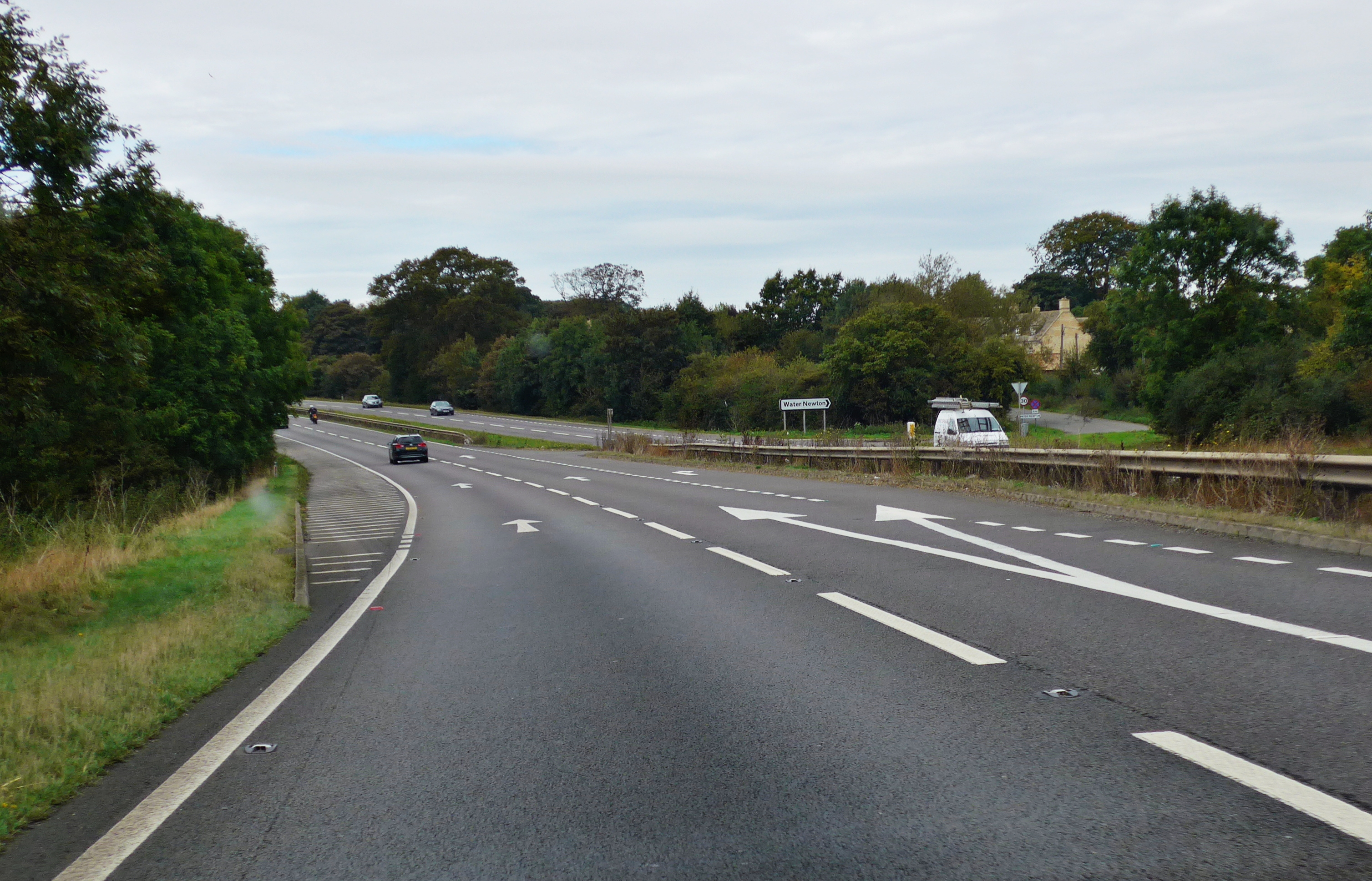 The A1 road at Water Newton exit, northbound